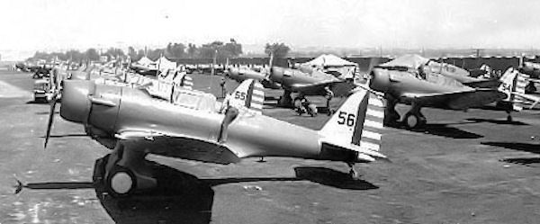 8th Attack Squadron - Northrop A-17A